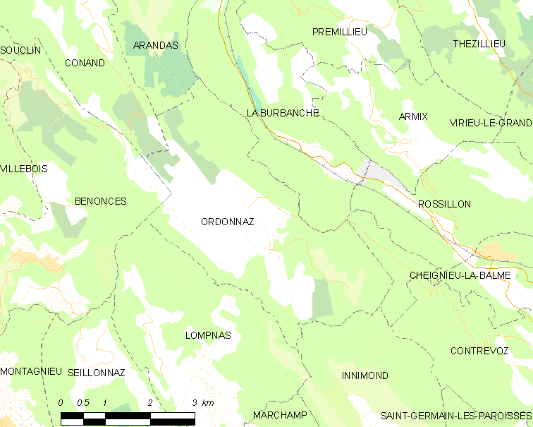 Map of French commune: Ordonnaz Map commune FR insee code 01280.png